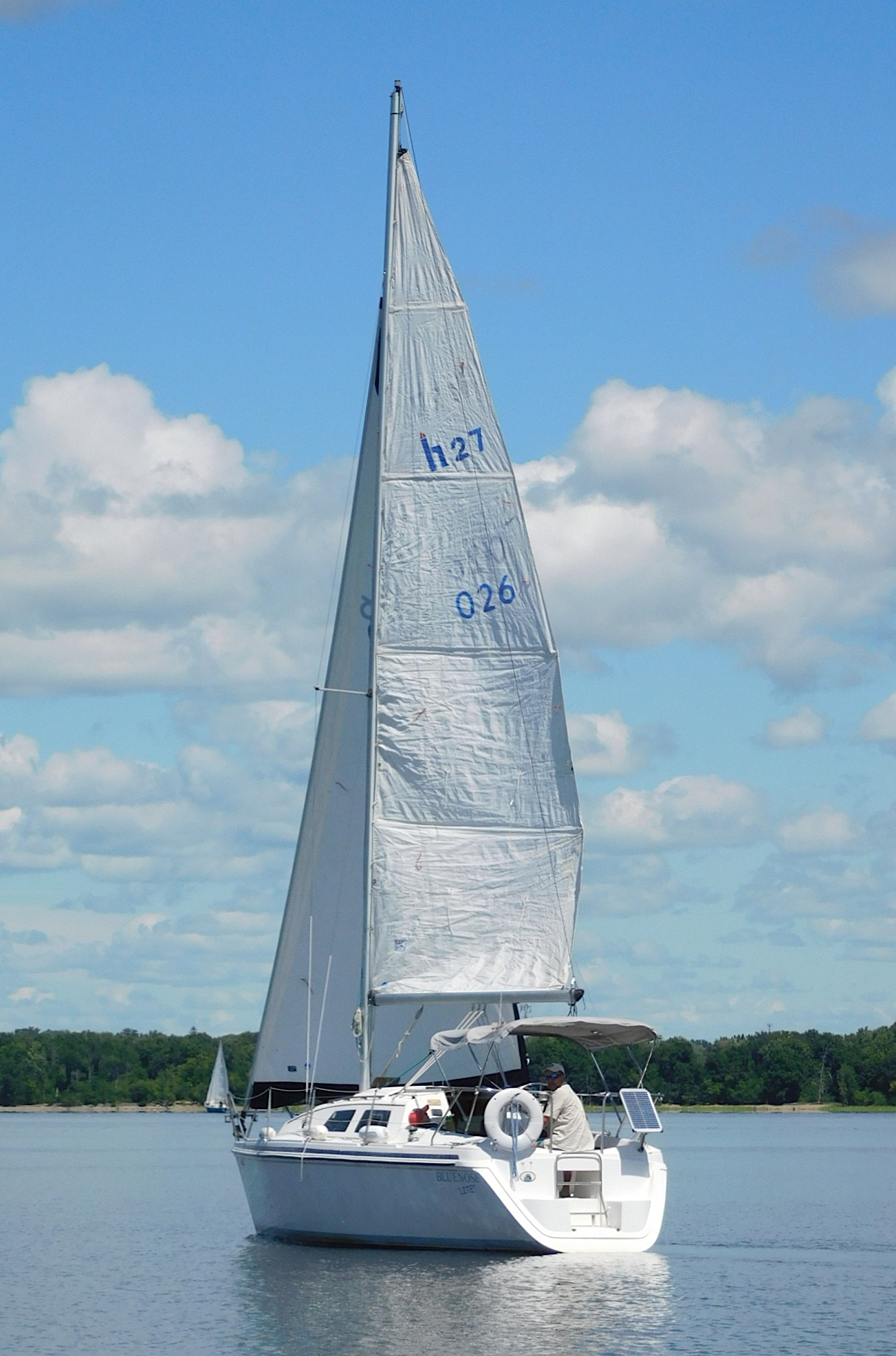 A Hunter 27-2 sailboat named Bluenose Lite.